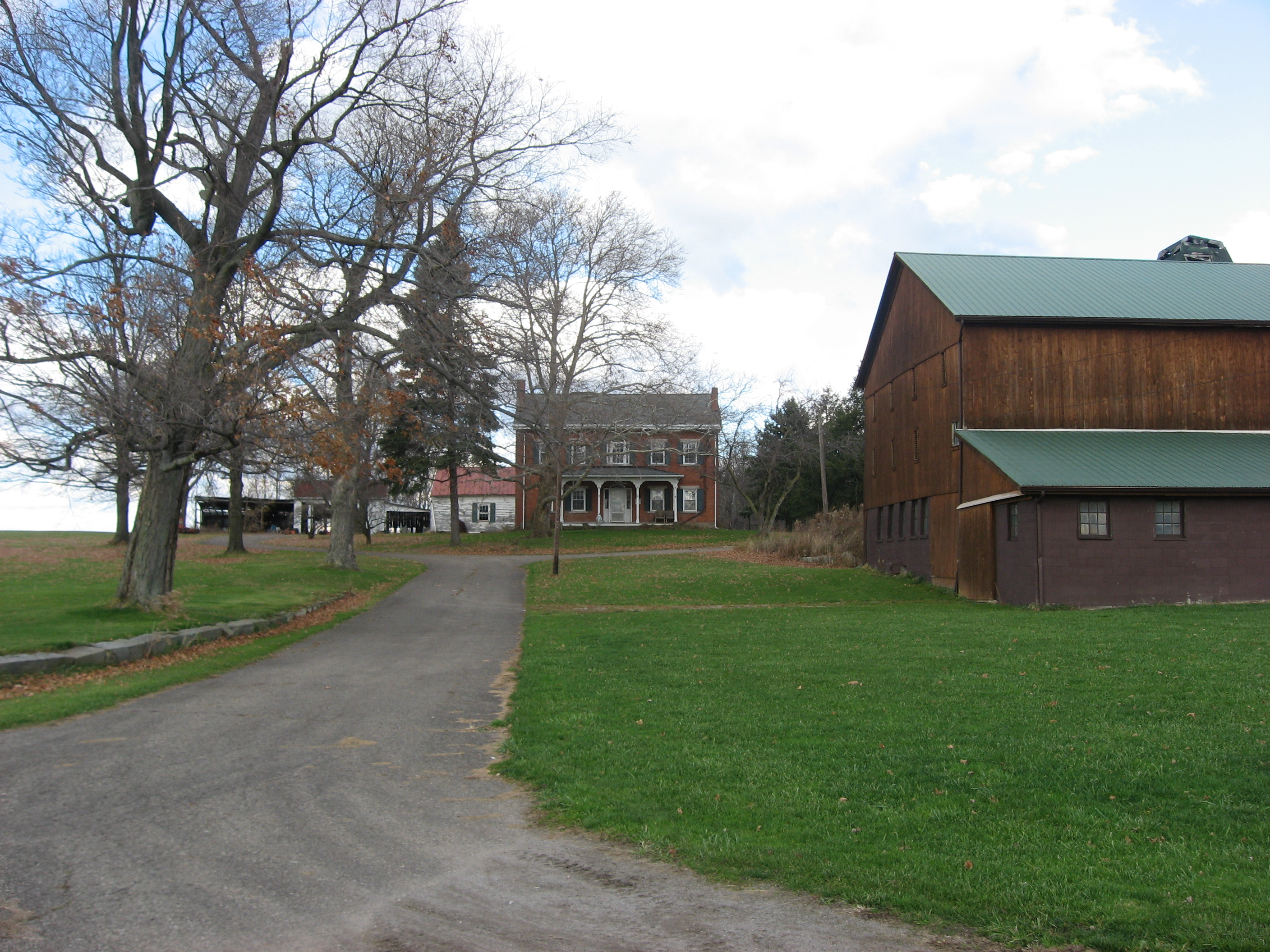 Roadside view of the McClelland Homestead, located along McClelland Road northeast of Bessemer in North Beaver Township, Lawrence County, Pennsylvania, United States. Built in the Federal style in the nineteenth century — the house circa 1840, and the barn circa 1850 — the farm complex is listed on the National Register of Historic Places.